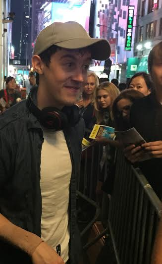 A photo of Alex Sharp at the stage door of the Curious Incident of the Dog in the Night-Time